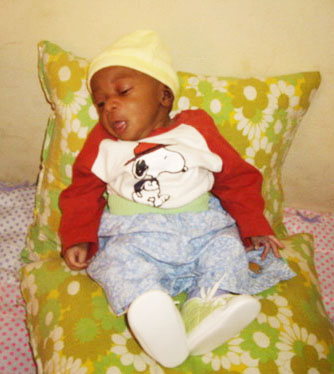 Sandor Fabry Junior Alassane Keita